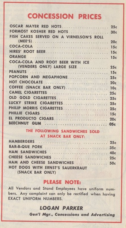 A 1954 list of food prices at Shibe Park in Philadelphia.